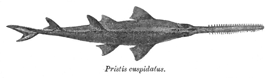 Pristis cuspidatus = Anoxypristis cuspidata (Latham, 1794)